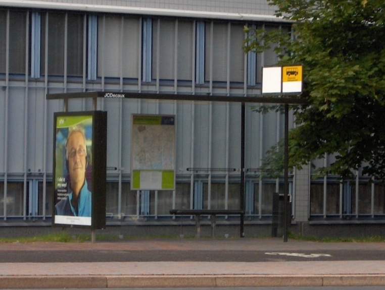 A bus stop in Matinkylä, Espoo, Finland. The station belongs to the French company JCDecaux.